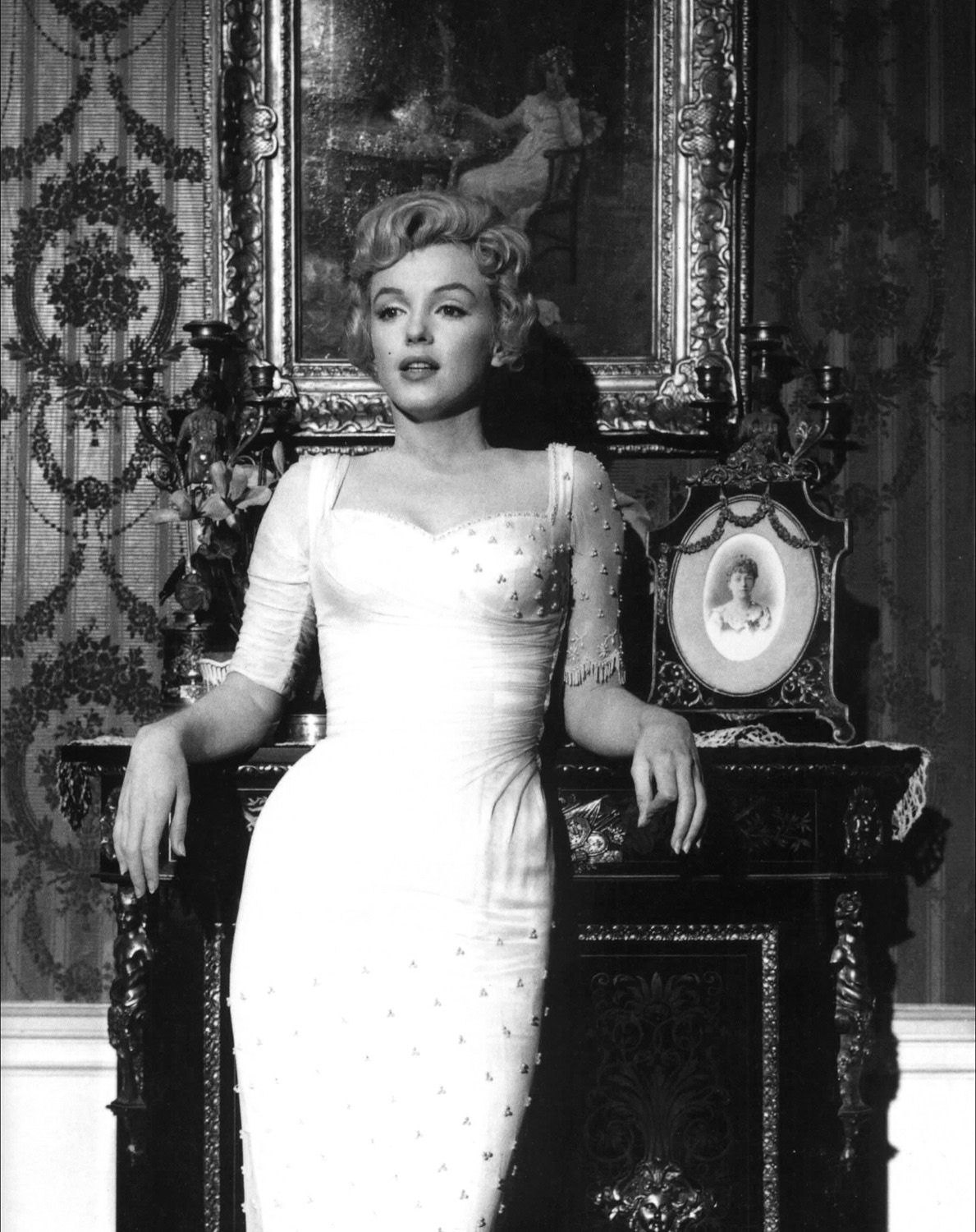 Marilyn Monroe in the 1957 film The Prince and the Showgirl.